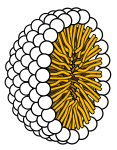 picture of a micelle cut from Media:Phospholipids aqueous solution structures.svg